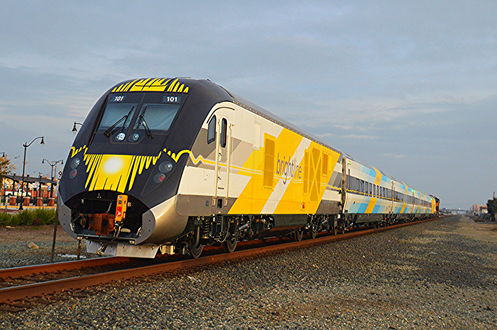 The first of five train sets for Brightline is hauled by the Union Pacific Railroad through Manteca, California on the Fresno Subdivision in December 2016 on its way to Florida